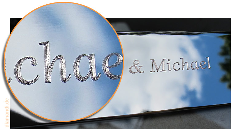 Example of a machine engraving on a silver shiny surface of a picture frame. Made with a diamond stylus.